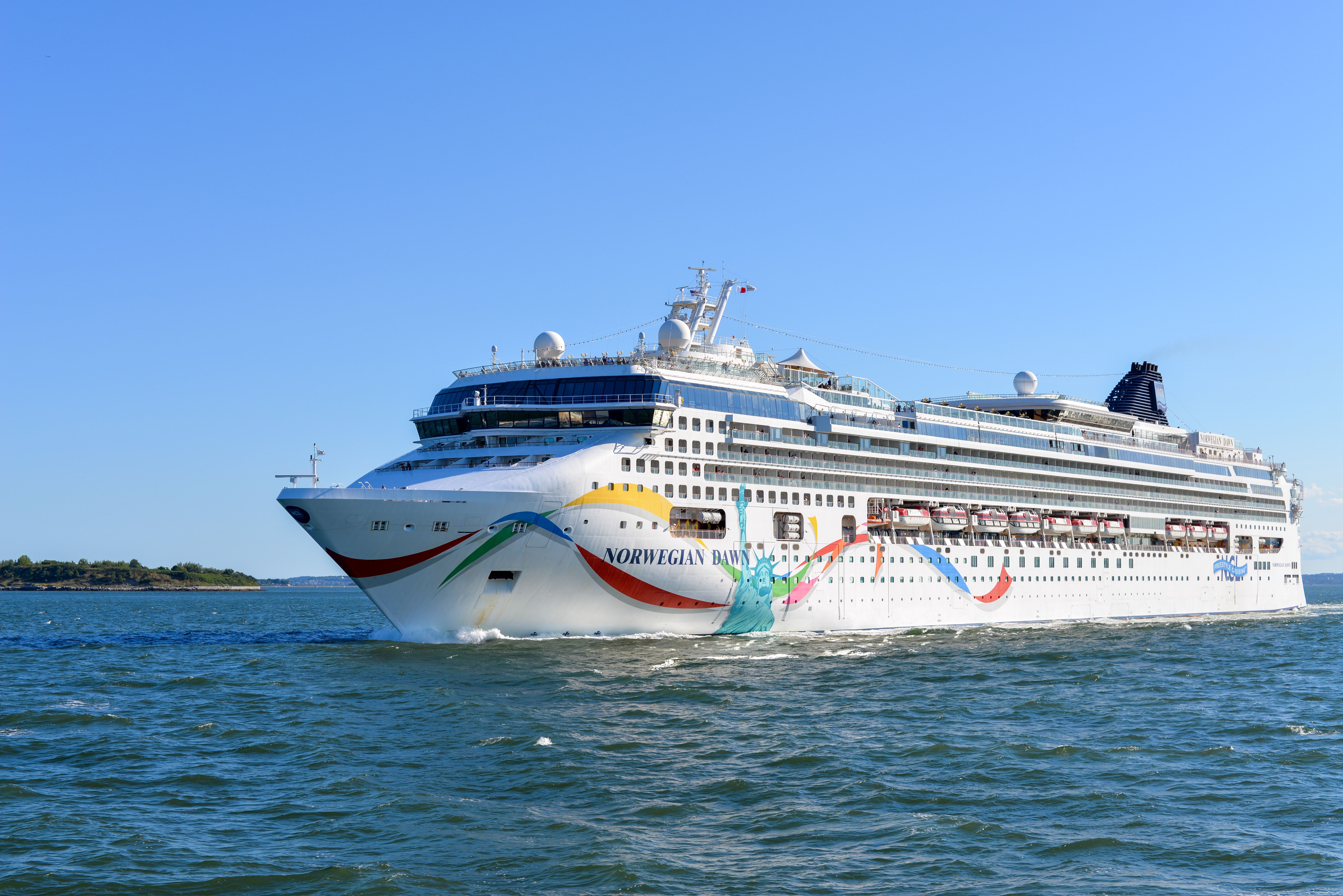 The Norwegian Dawn cruise ship on its way out of Boston Harbor.